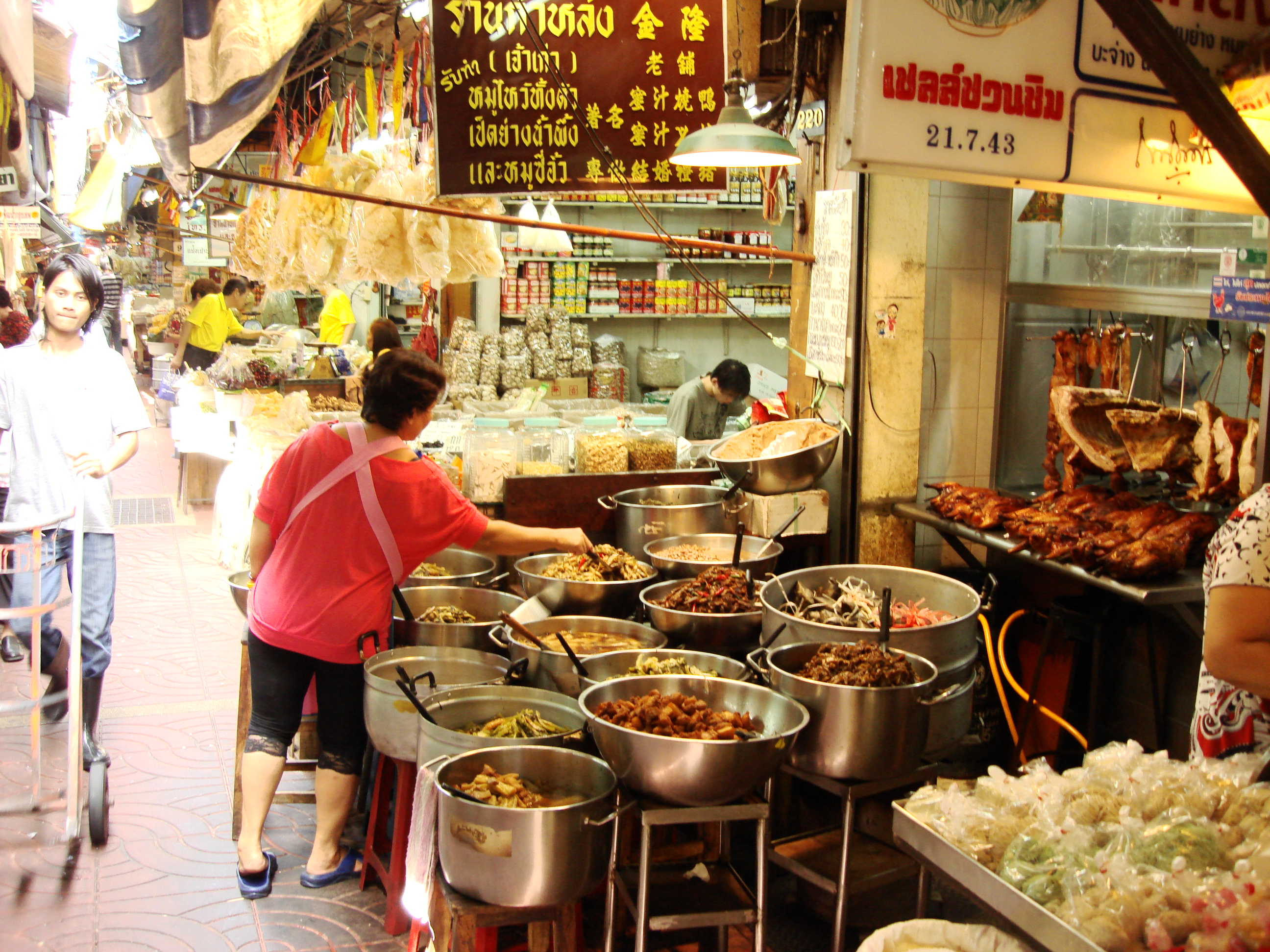 Talat Kao is one of the oldest markets in Bangkok and has acted as the central market and trading place in Chinatown for over a century. Famous for its Chinese delicacies including sharks fins, dried abalone, fried puffed up fish stomachs and steamed bird’s nests, this is not a place for the faint hearted. An insightful opportunity into the culinary culture of the Chinese, for those who prefer more simplicity to your meals dumplings, noodles and freshly squeezed orange juice are all readily available